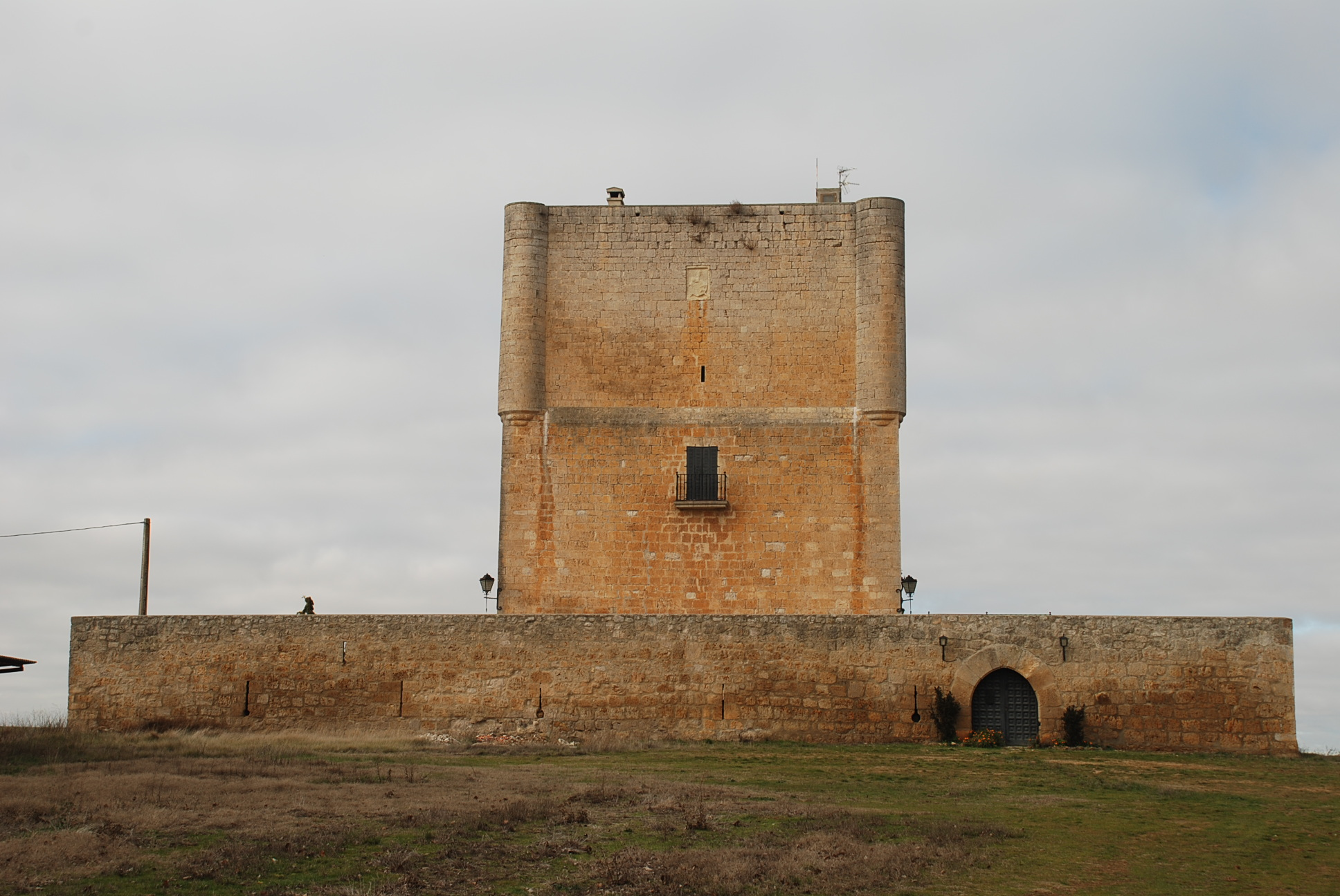 Castle of Las Cabañas de Castilla (Palencia, Castile and León).